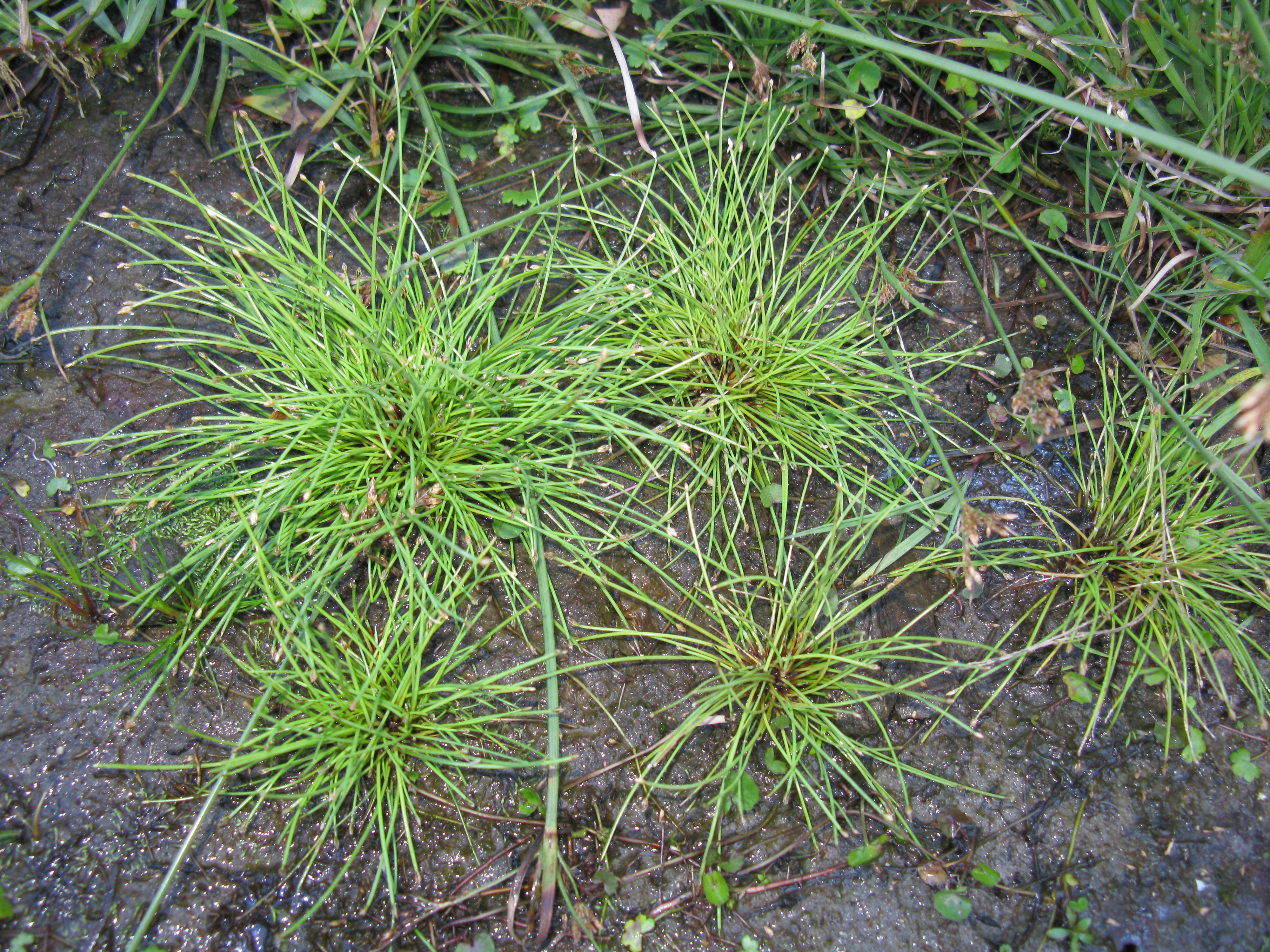 Introduced, warm season, perennial sedge, sometimes producing short stolons or rhizomes. Culms are mostly tufted, rounded, grooved, 5–15 cm long and about 0.5 mm diam. Spikelets are ovoid or oblong-ovoid, 3–7 mm long. Glumes are rather prominently keeled, about 1.7 mm long and straw-coloured tinged dark red-brown. Bristles are 5–7, unequal, shorter or longer than nut, retrorsely scabrous, whitish and strongly united at the base. Stamens 2. Style 2-fid. Nuts are rather turgidly biconvex, with angles ± ribbed, obovoid, shining, minutely reticulate, 0.8–1 mm long and pale green to dark greenish brown. Flowering is from spring to summer and often occurs in the first year. A native of Africa and Madagascar, it grows in swamps and sandy shores of coastal lakes.